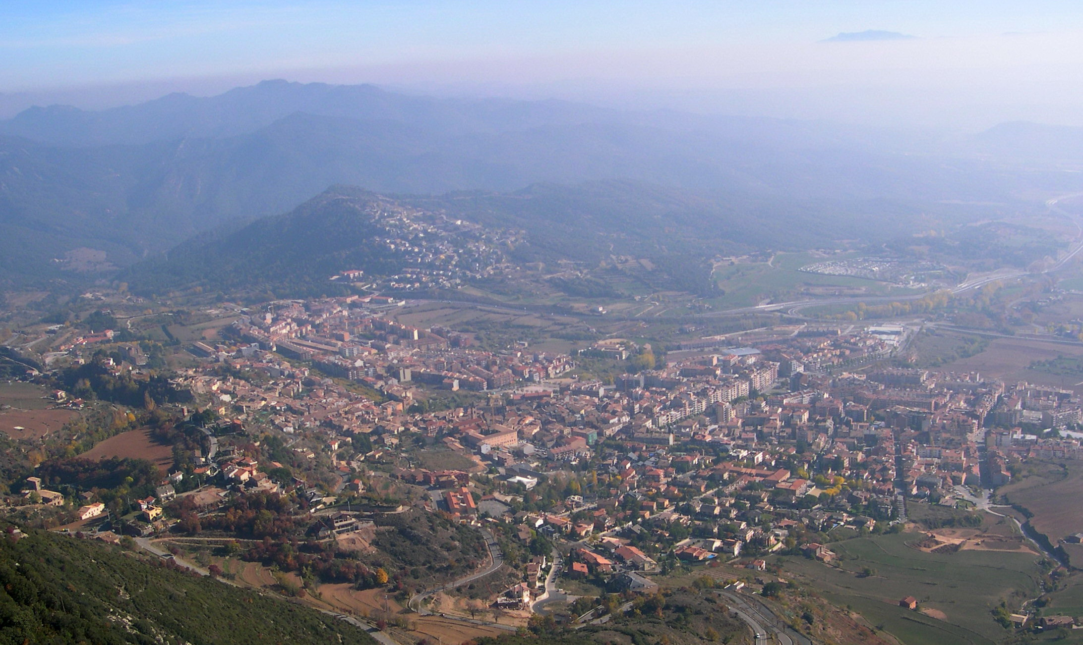 Berga from Queralt